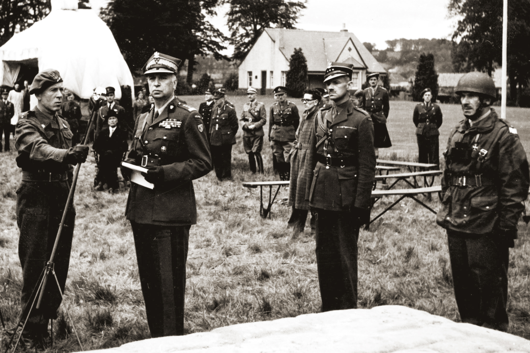 Gen. Kazimierz Sosnkowski i Col. Stanisław Sosabowski with soldiers of 1st Polish Independent Parachute Brigade